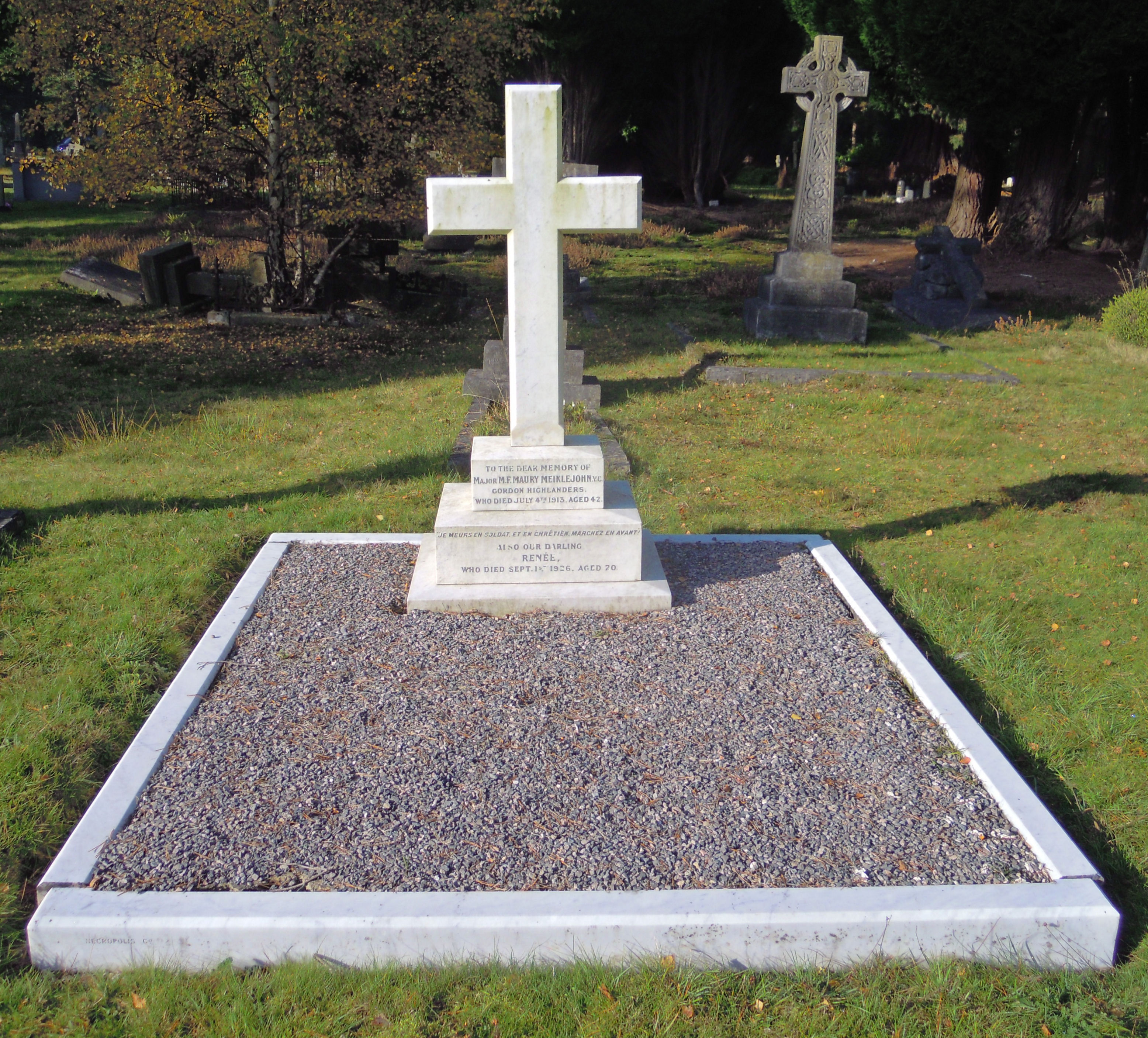 The grave of Matthew Fontaine Maury Meiklejohn VC at Brookwood Cemetery